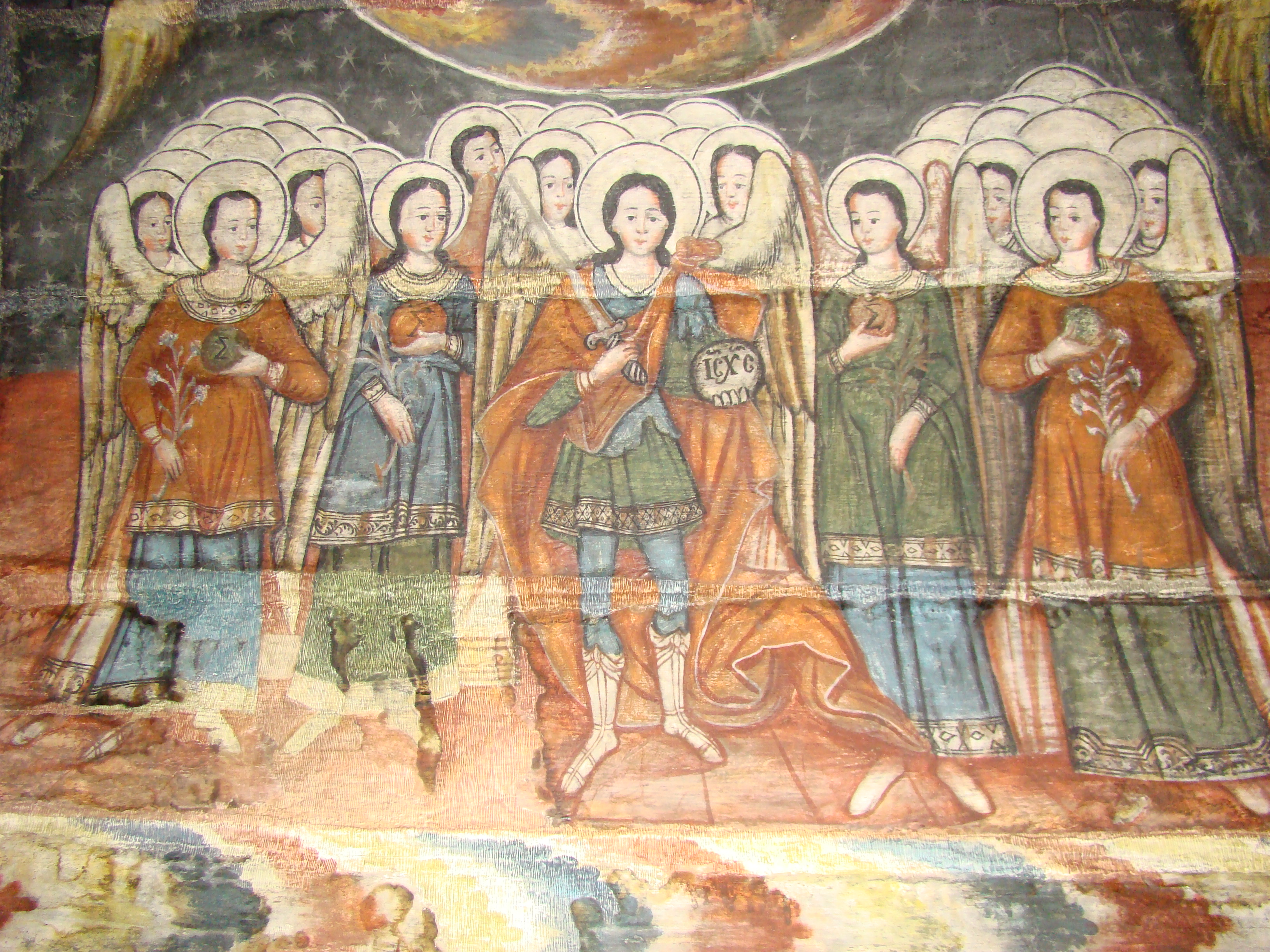 Wooden church in Bica, Cluj countyRomână: Biserica de lemn din Bica, județul Cluj